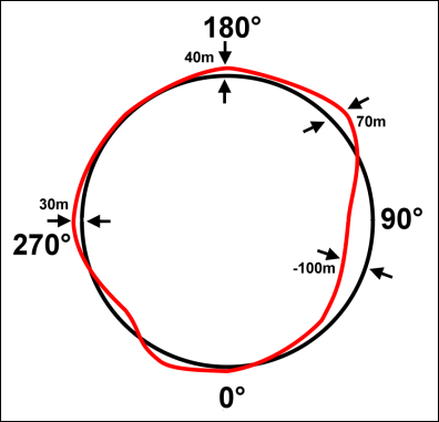 Geoid, indication on deviation from ellipsoid around equator. Related pictures: image:geoundaequrp.png,image:Geoundnsrp.png,Image:Geoids_sm.jpg Own drawing based on assumptions how to get mean data values near equator. Because there are different ways how to take areas below and above equator into account this image is more a guide for the eye showing the variation of -100 to 40 m.